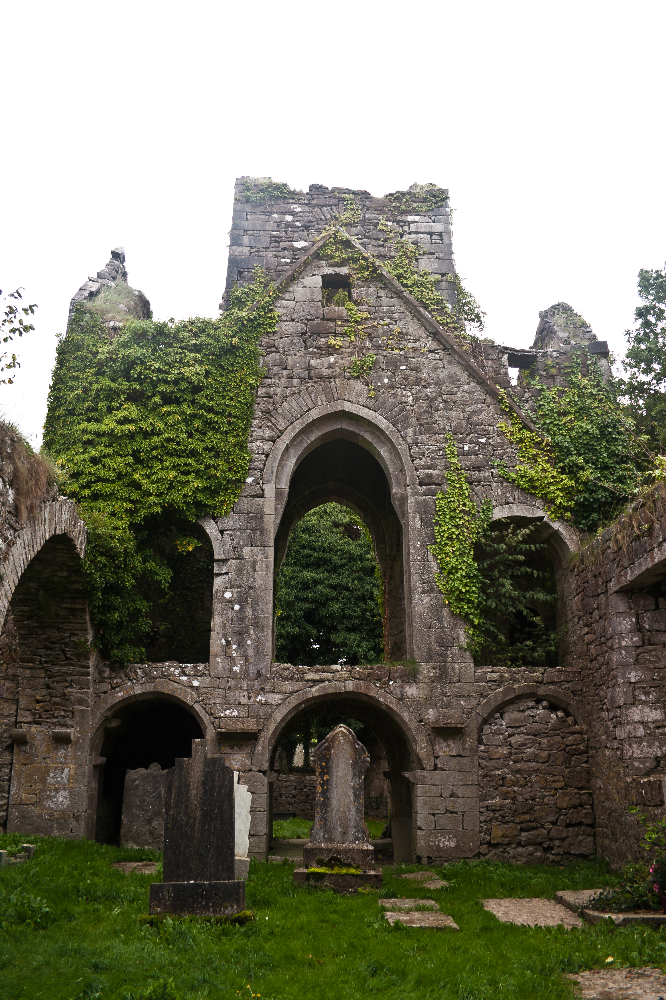 Tower of Ballindoon Priory, looking east.